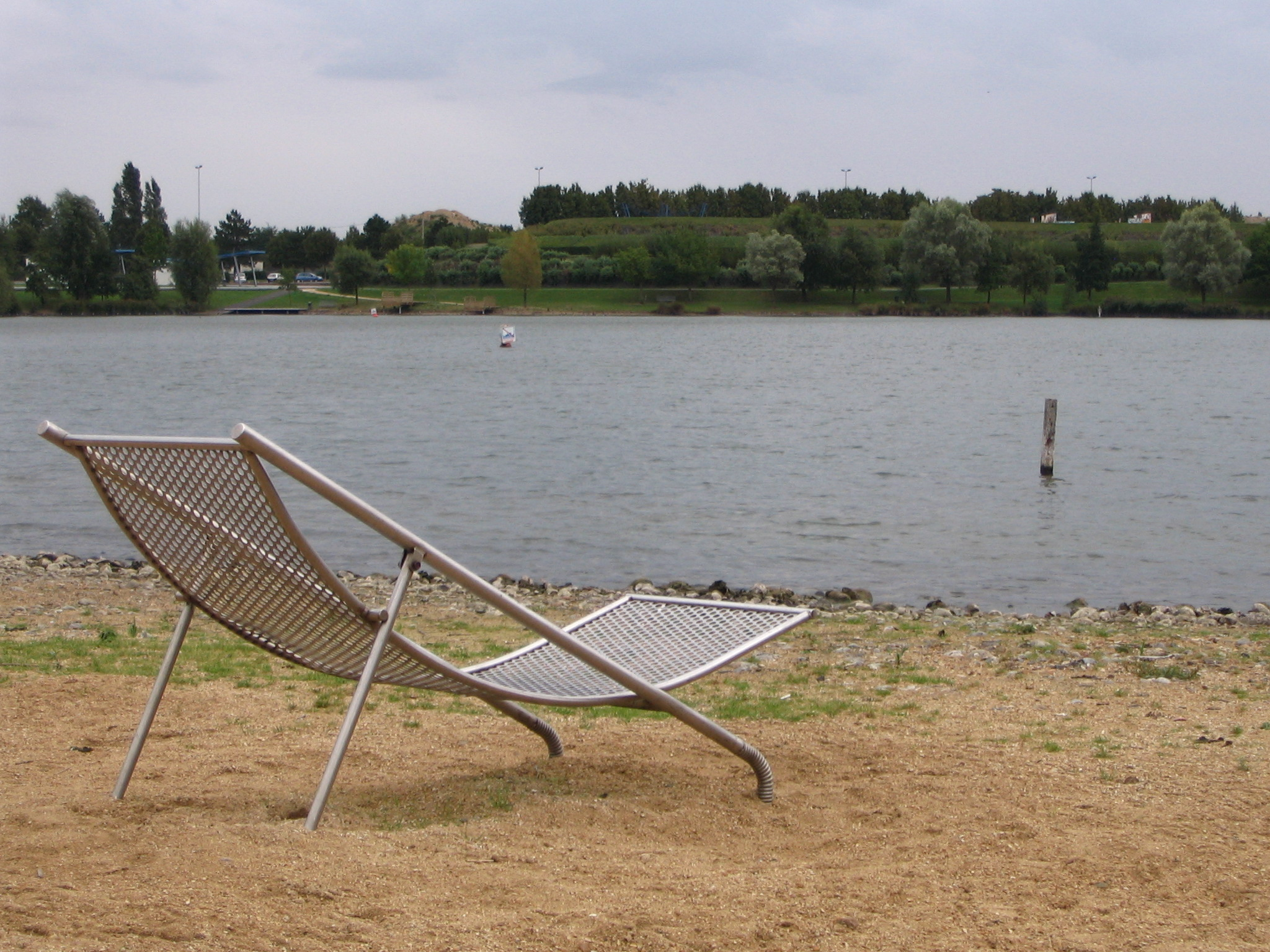 Parc départemental de la Plage Bleue, in Valenton, Val-de-Marne, France.